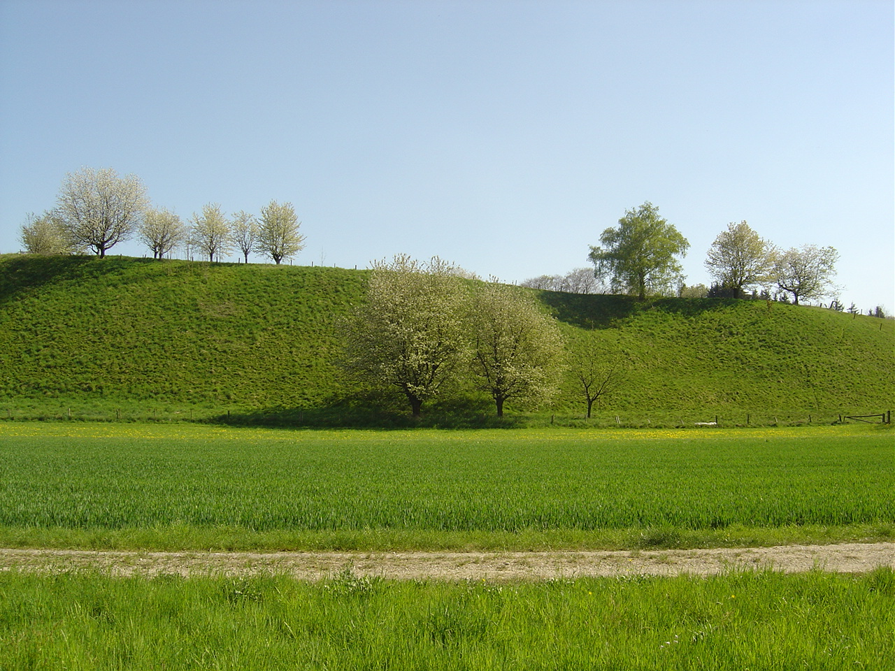 Terminal moraine in the northeast of Möhlin. Location: Unterforststrasse